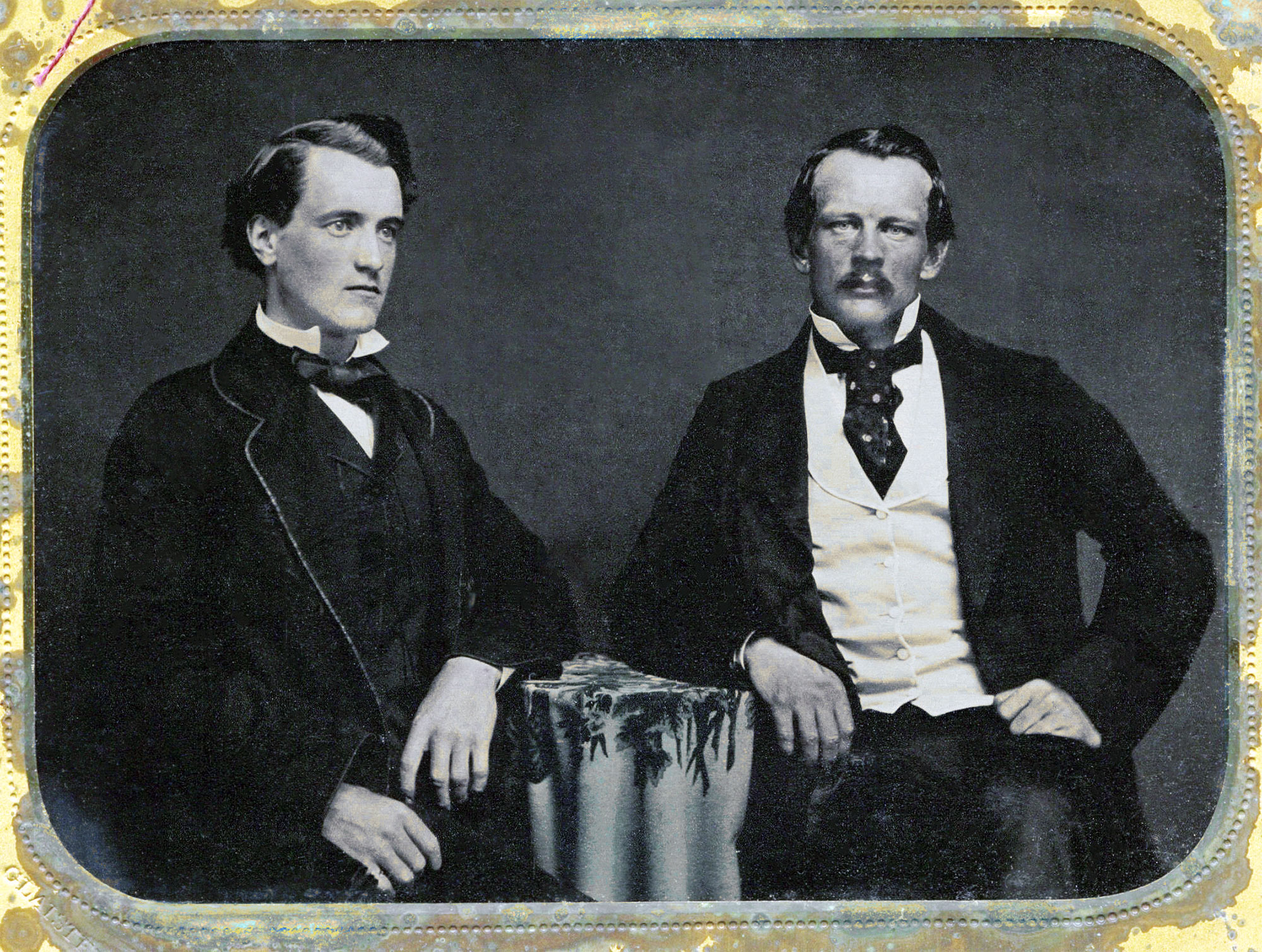 Walter Russel Hall and William Knox Darcy. Probably taken at Mount Morgan or Rockhampton during the period when both men were developing the Mount Morgan Mine